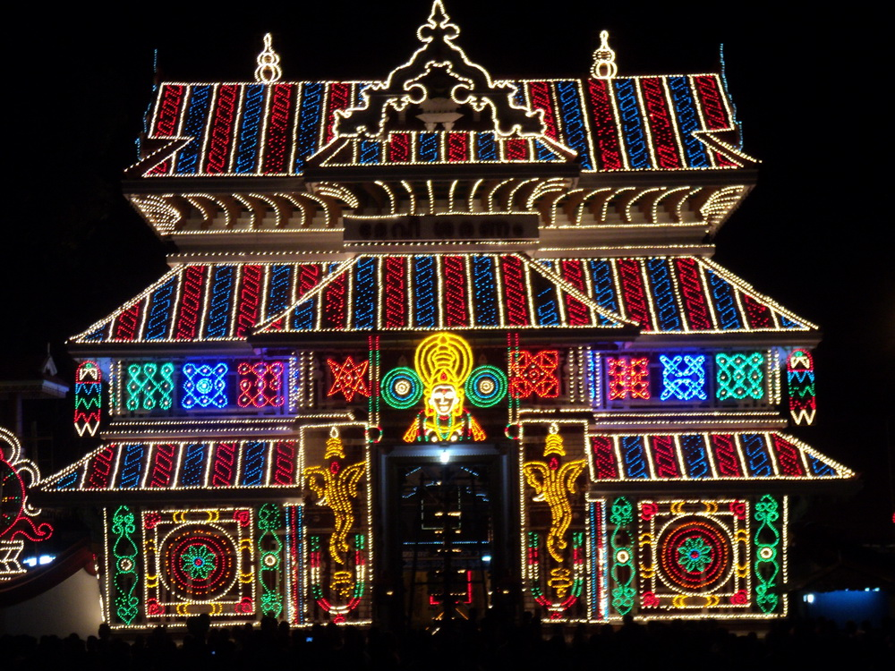 Paramekkavu Temple, Thrissur - Thrissur Pooram Festival